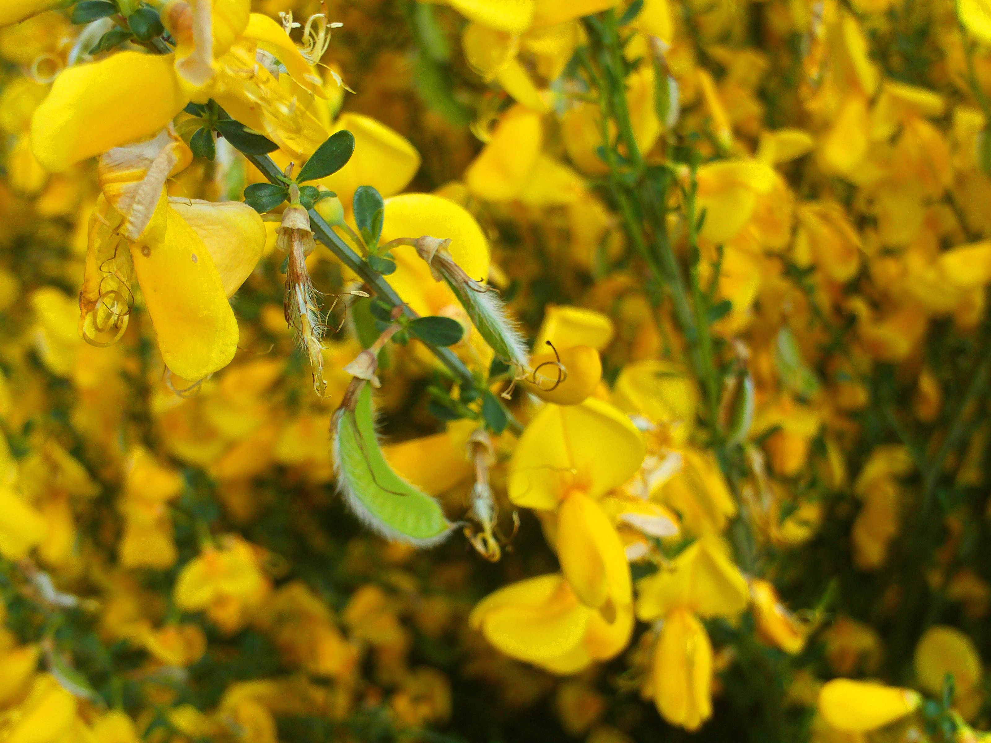 Cytisus scoparius flowers close up, Sierra Madrona, Spain